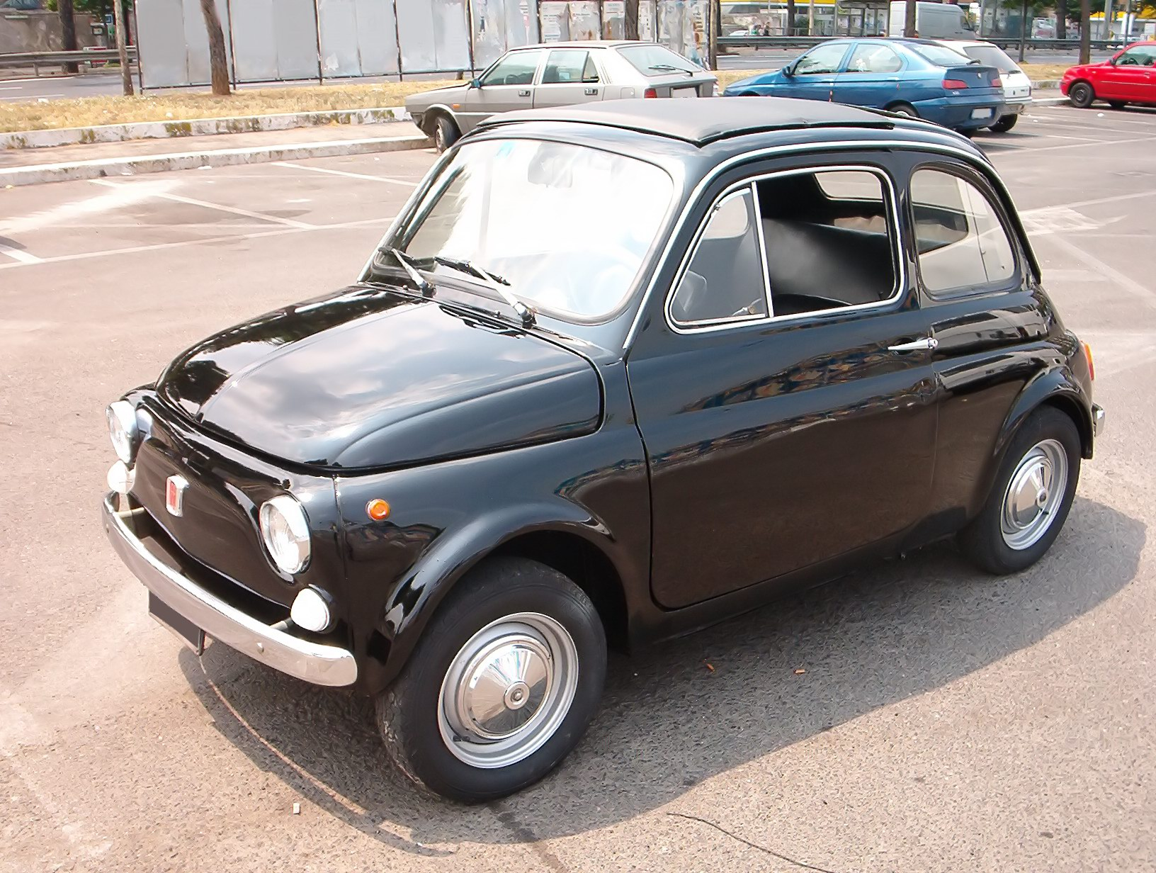 1965 black Fiat 500. The car was repainted, thus this is not an original 1965 color. Photo taken in Rome (Italy) on 8 June 2003. la mascherina non e' quella originale del modello F ma del modello L.